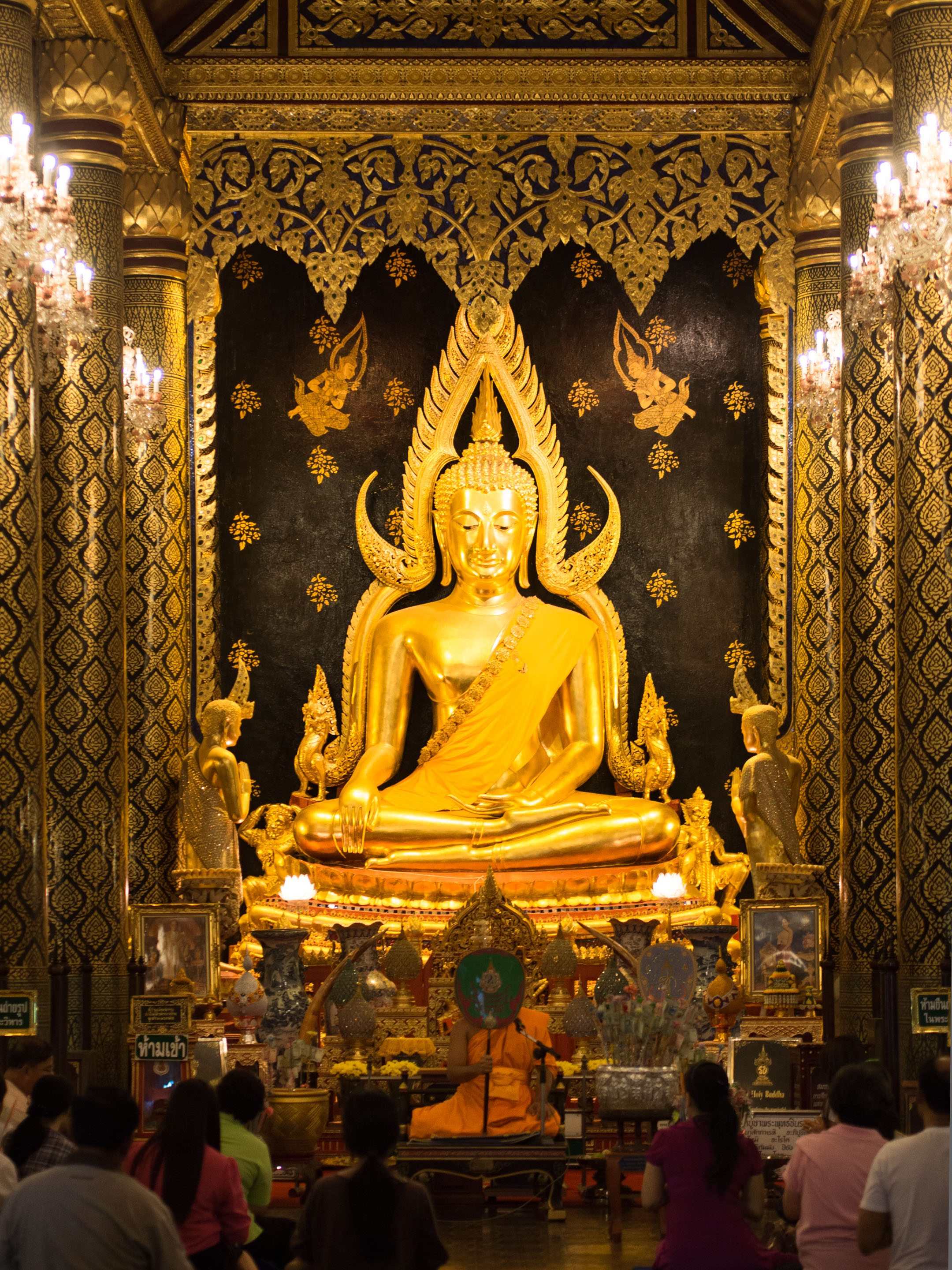 The Phra Buddha Chinnarat of Wat Phra Si Rattana Mahathat in Phitsanulok is regarded by many to be the most beautiful statue of the Buddha in Thailand.